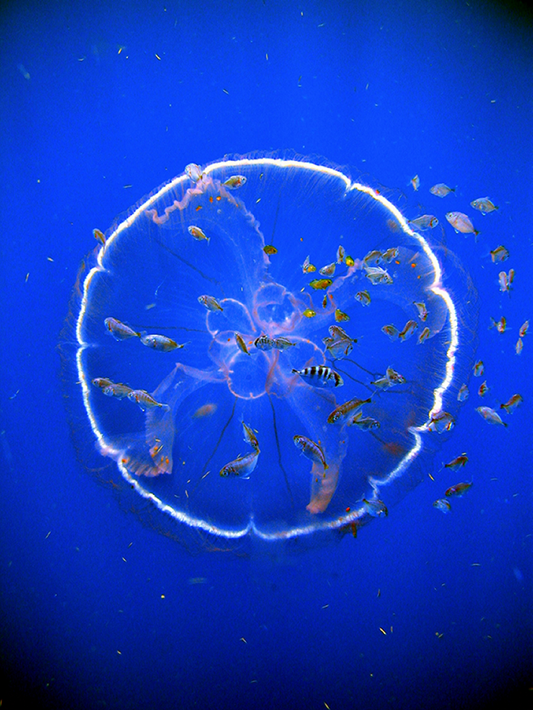 A flotilla of fish follow a transparent drifting jellyfish, Aurelia labiata. Gulf of Mexico.